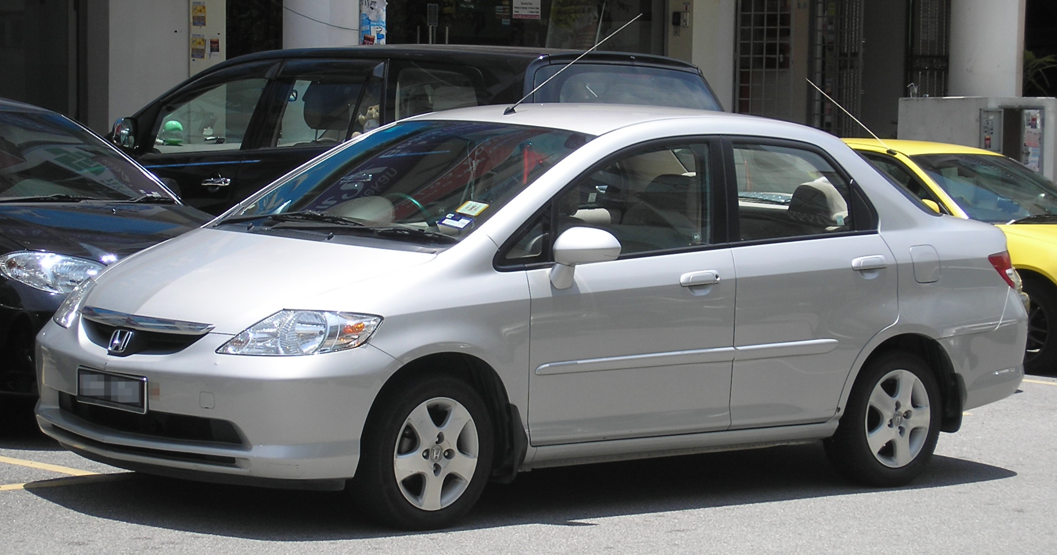 Front-side shot of a fourth generation Honda City, in Serdang, Selangor, Malaysia.